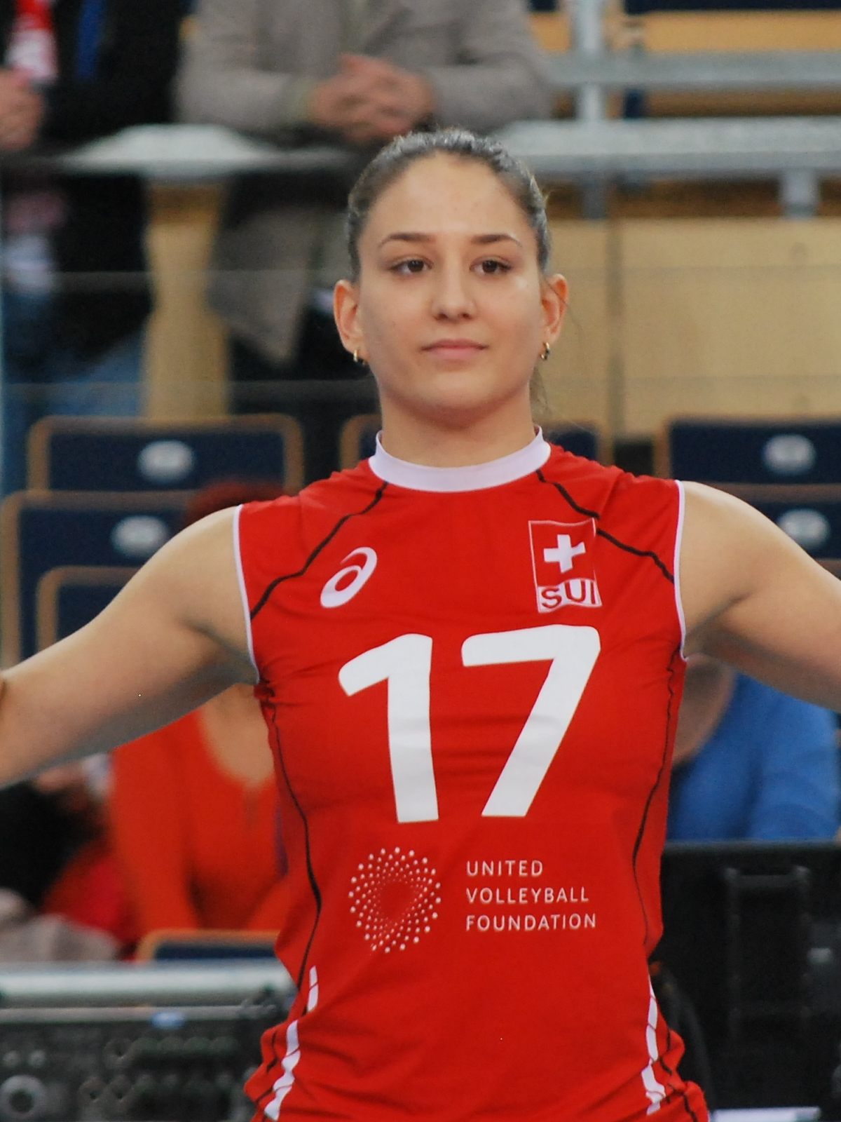 FIVB World Championship European Qualification Women Łódź January 2014. Laura Unternahrer - volleyball player from Switzerland